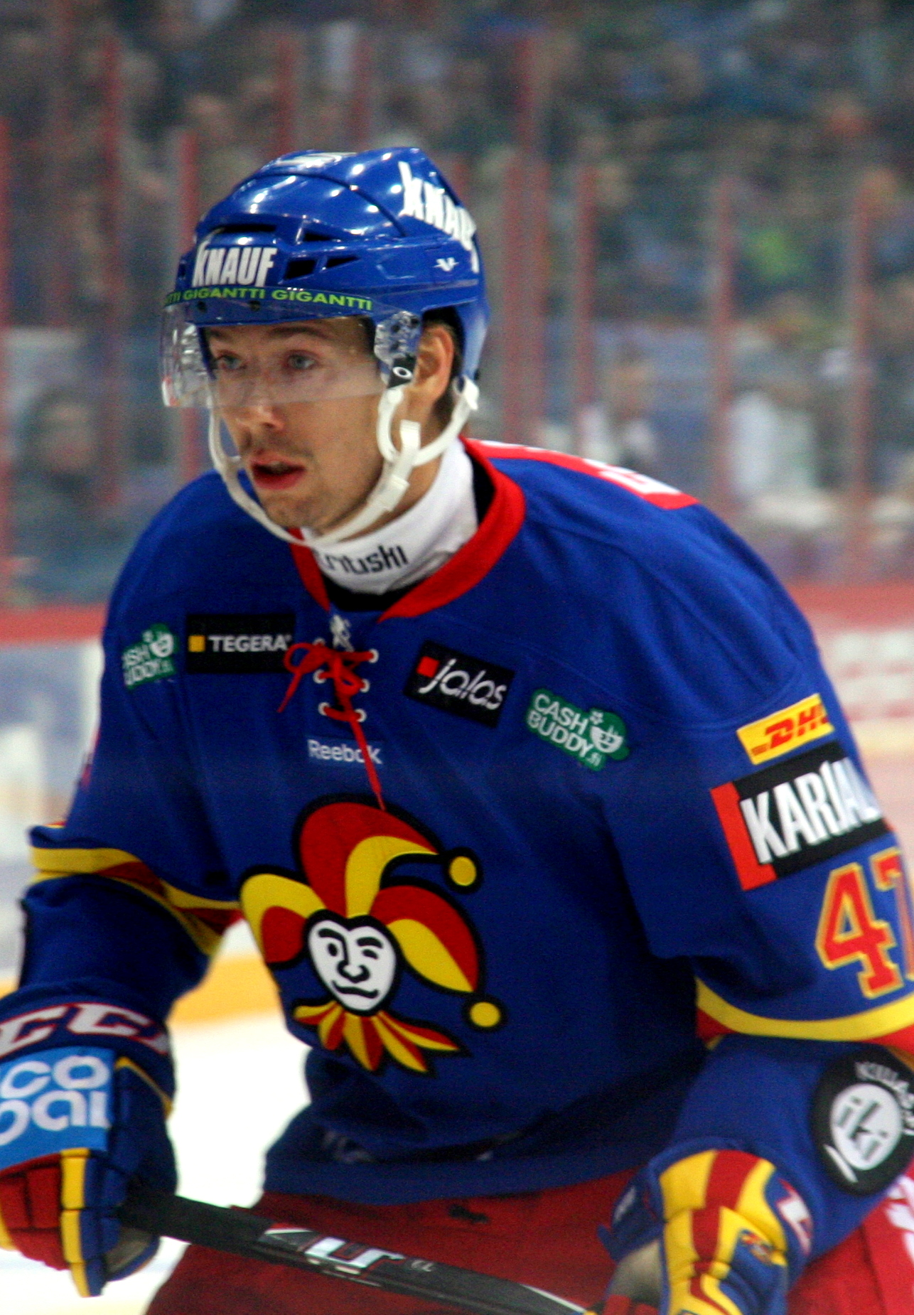 Ice Hockey Team Helsingin Jokerit's Attacker #47 Janne Lahti